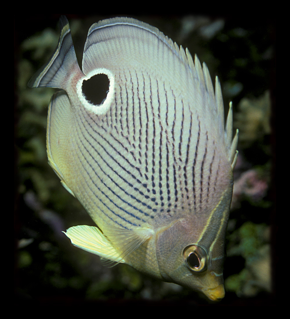 I got very close to this little fellow (Chaetodon capistratus). So, I airbrushed the outer edges of the photo slide frame after scanning so the crop wouldn't look too strange. Can you figure out how this little fish avoids predators?